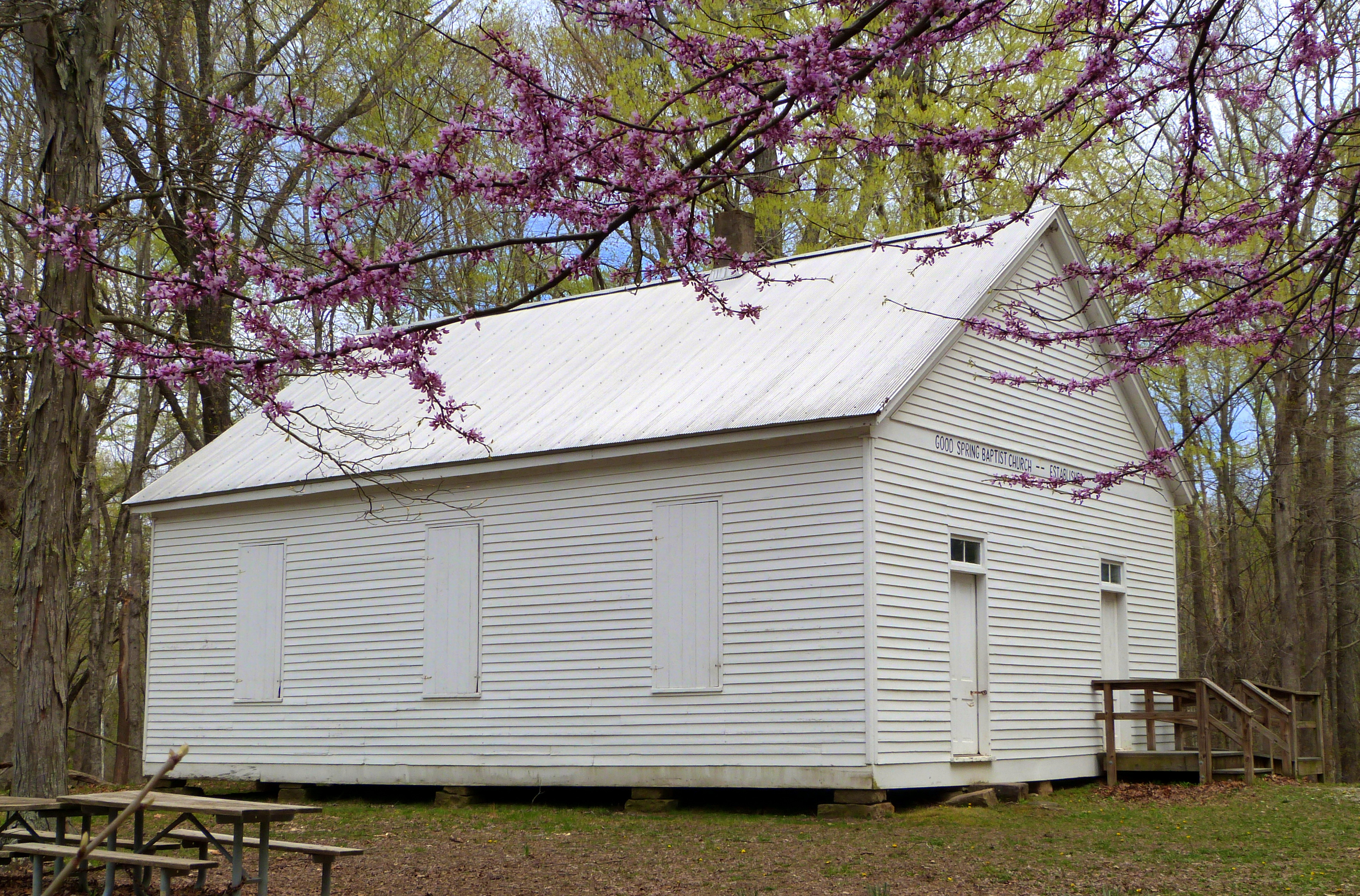 The historic Good Spring Baptist Church and Cemetery (built 1900), located in Mammoth Cave National Park, Kentucky, United States, is listed on the US National Register of Historic Places.